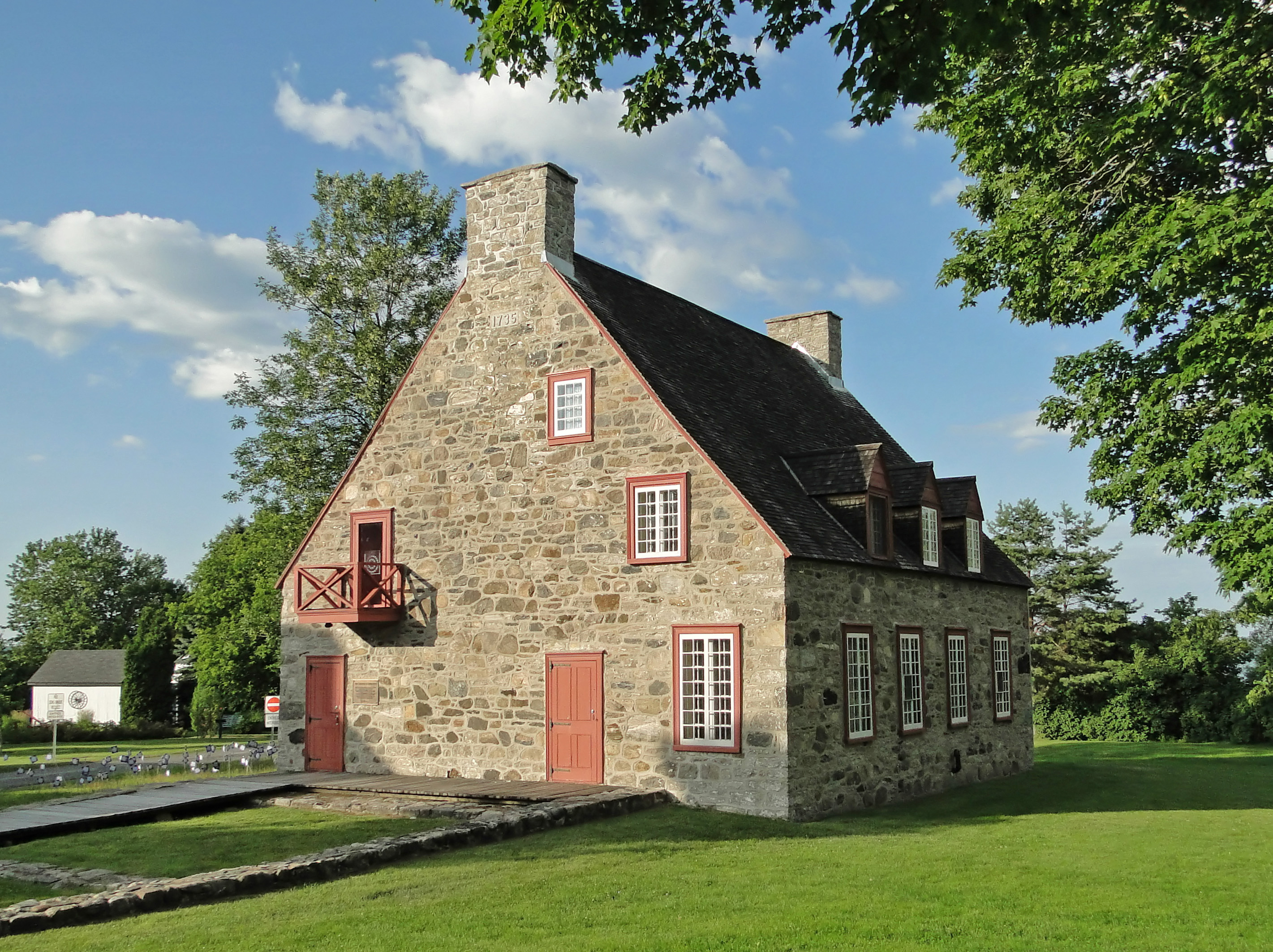 Old presbytery of Deschambault, Deschambault-Grondines, province of Quebec, Canada